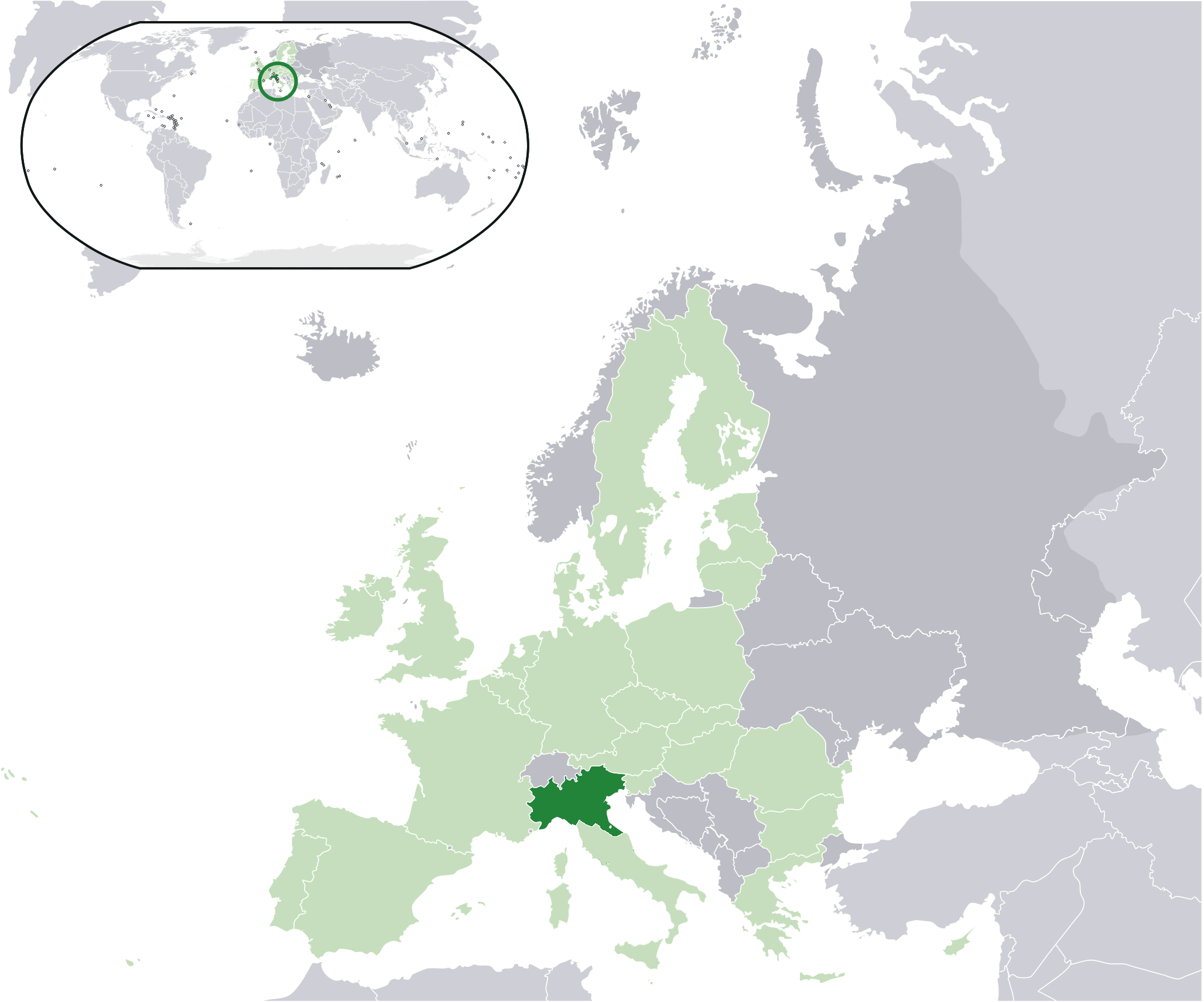 Map of the proposed state of Padania (advocated by Padanian League)